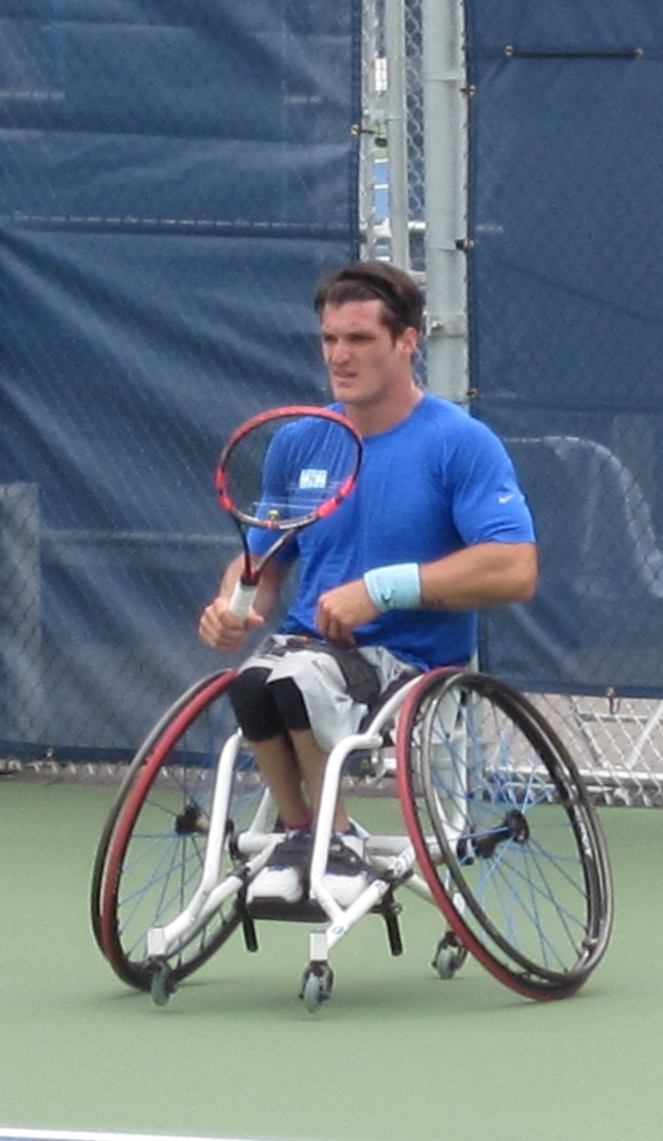 Gustavo Fernández, Argentinian wheelchair tennis player